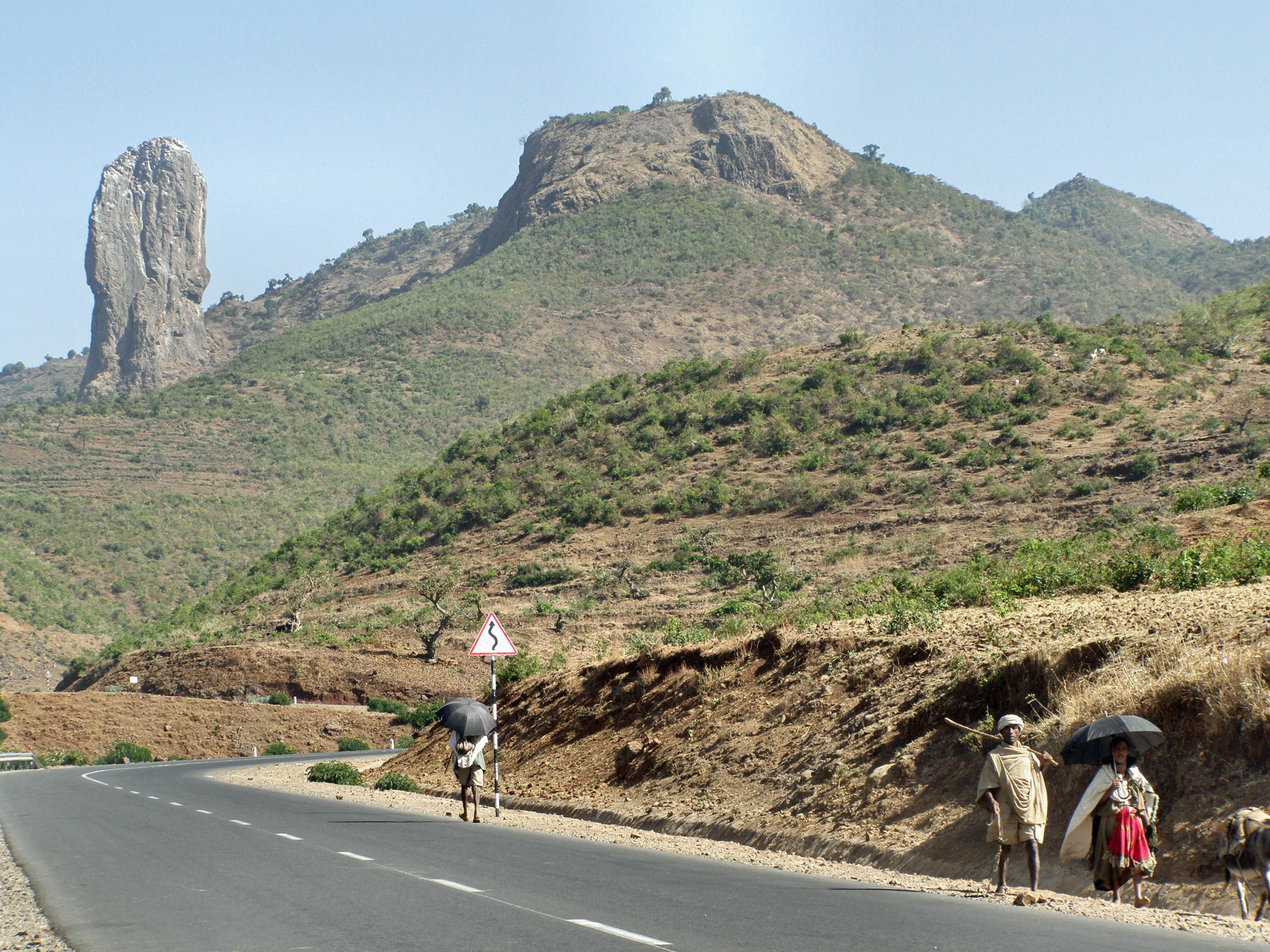 Monolith near the road between Addis Zemen and Gondar (Ethiopia)